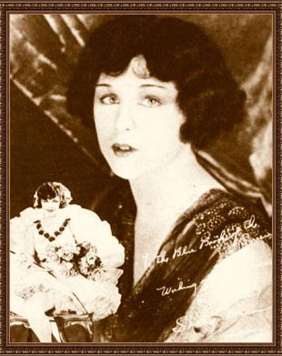 Publicity photo of Shirley Mason from The Blue Book of the Screen by Ruth Wing, editor